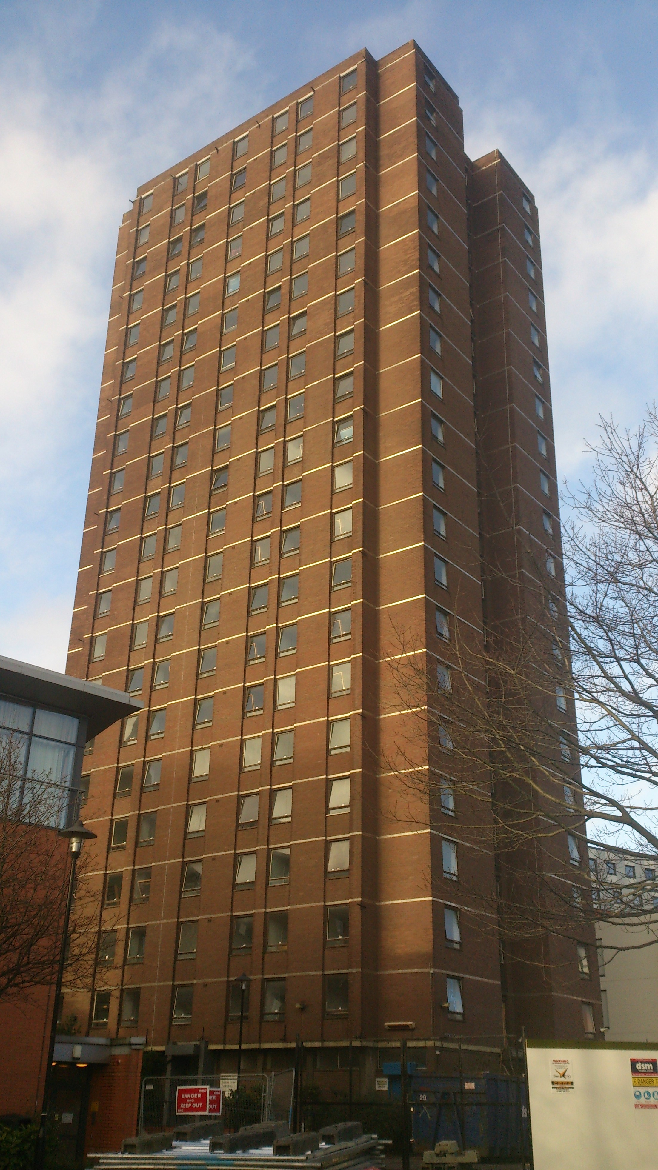 Stafford Tower, Aston University, prior to demolition in 2014